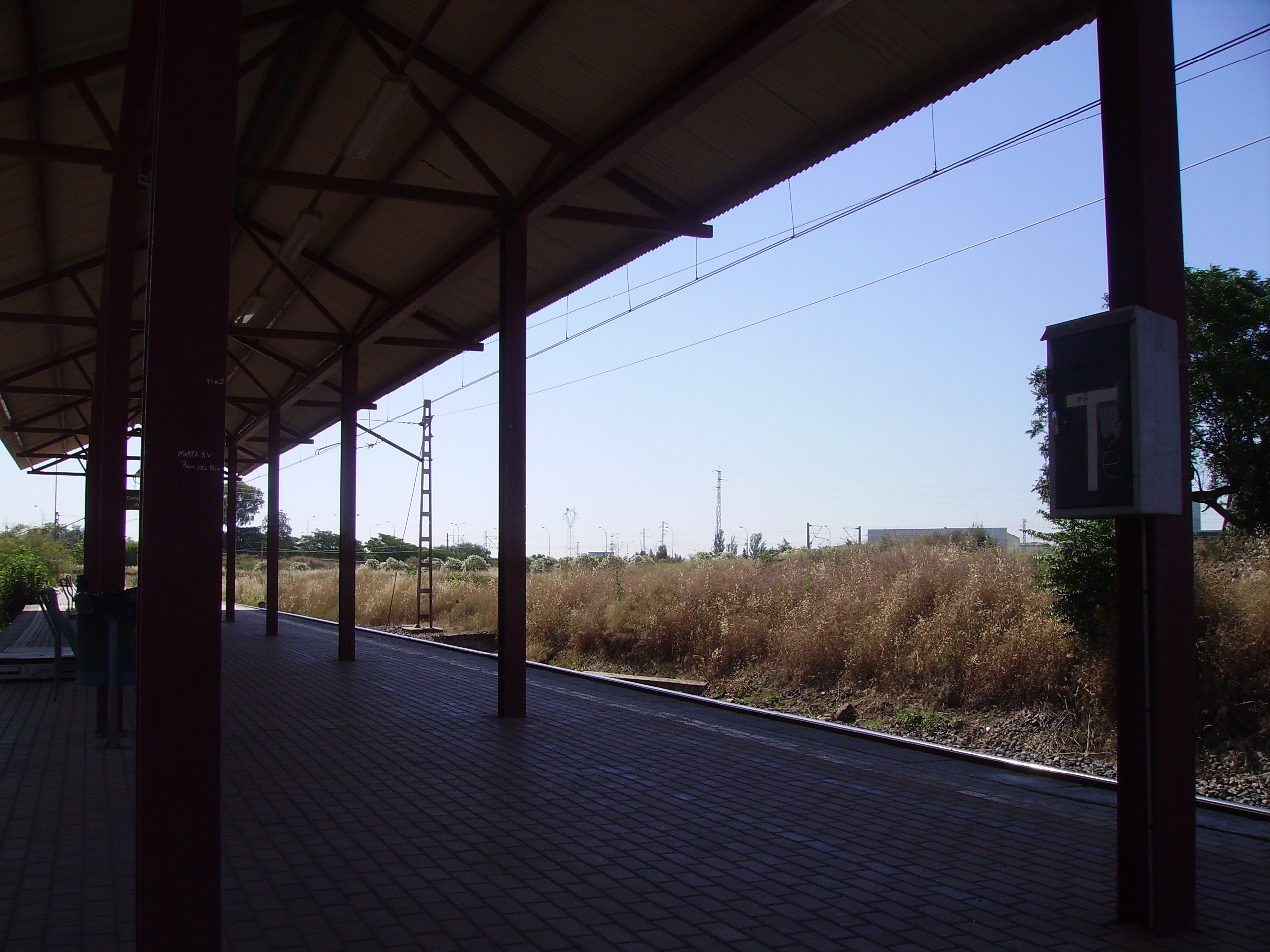 Train station of Rabanales Campus of the University of Córdoba (Spain).